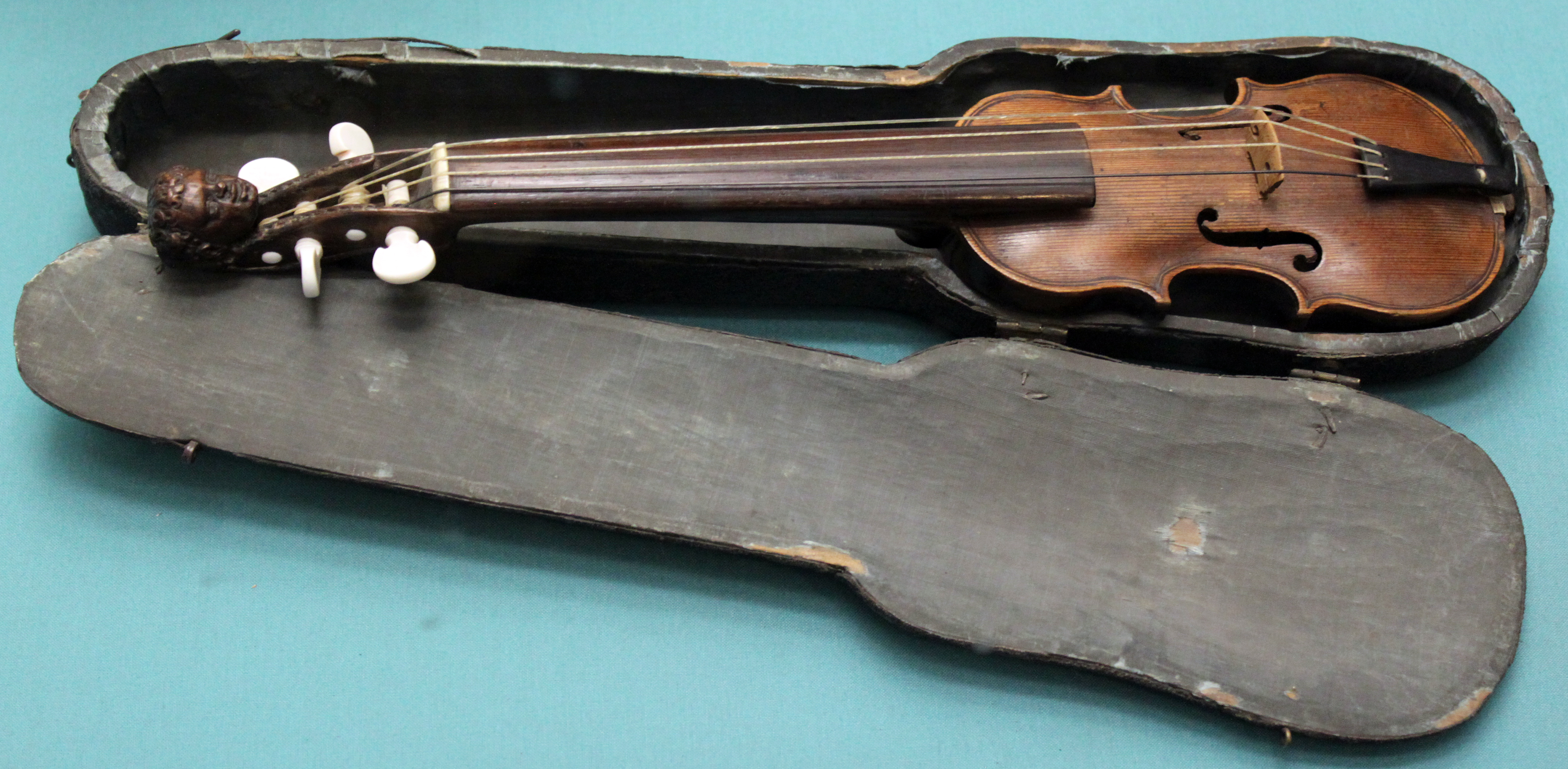 Dance Master's violin, Nuremberg, 1698; Germanic National Museum in Nuremberg